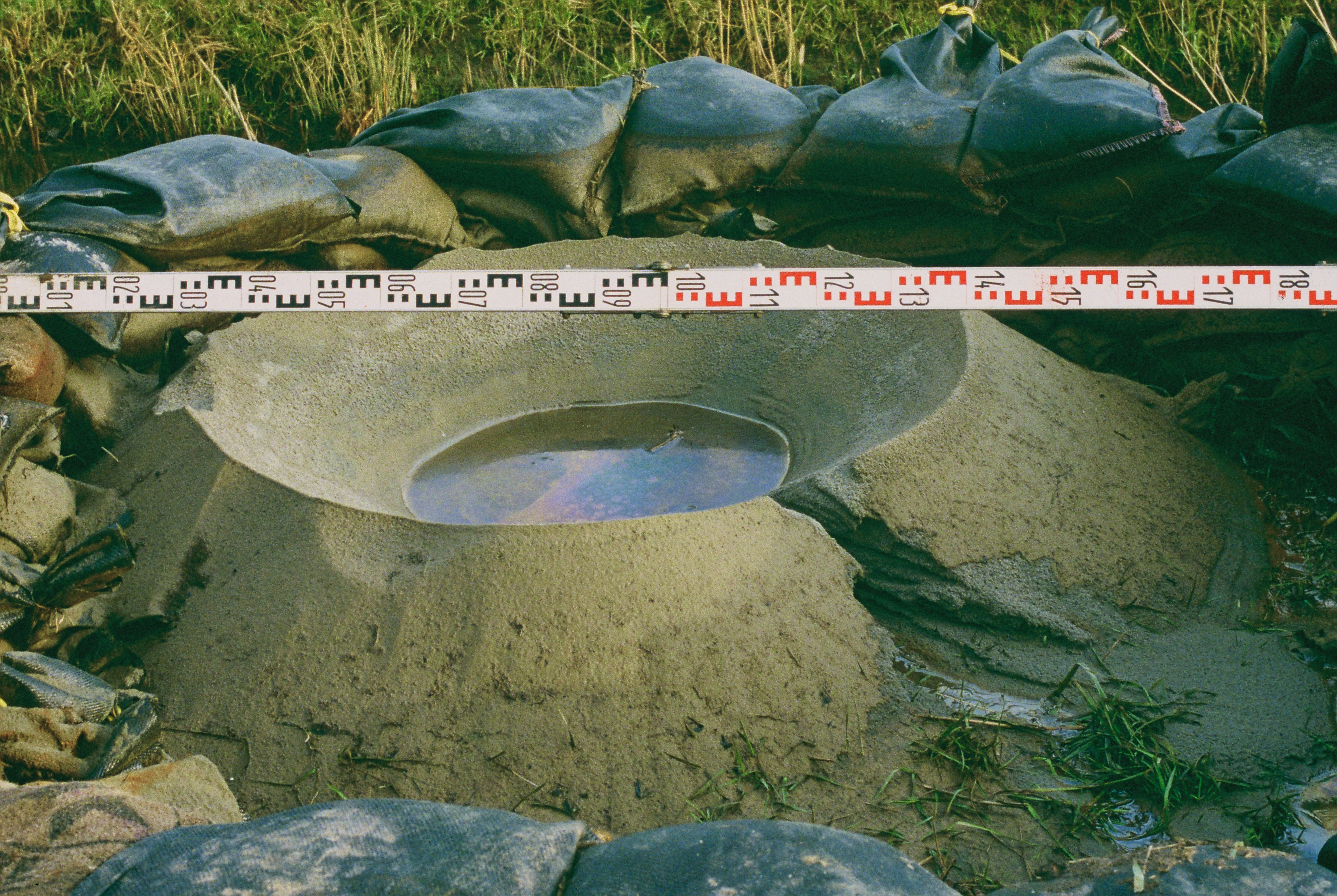 Sand boil behind a river dike (rive Waal, near Heeselt) after the high water of 1995 Metric scale (numbers indicate decimeters)